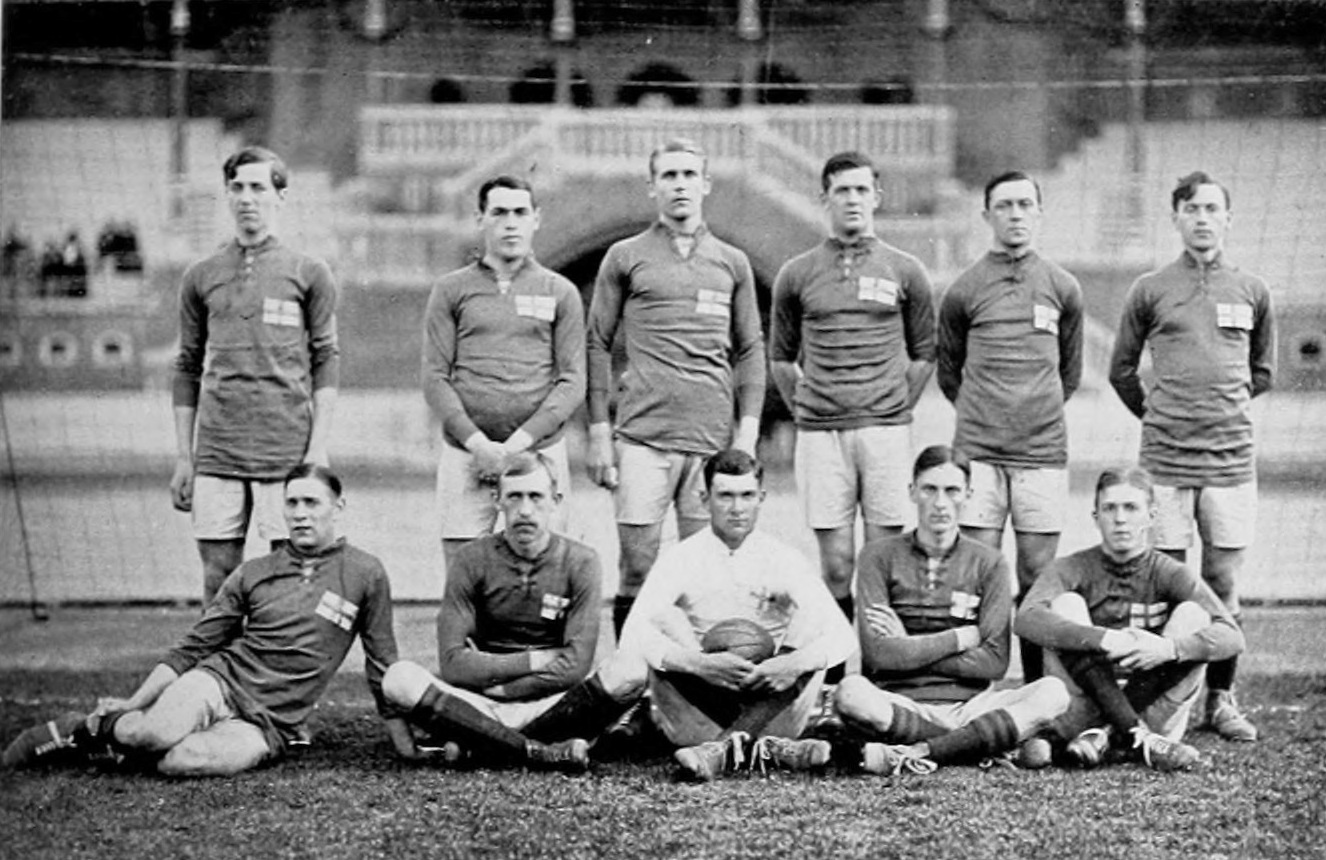 The Sweden national football team at the 1912 Summer Olympics. The Swedish eleven just before the match against the Netherlands. Standing from left: Wicksell, Levin, K. Gustafsson, Sandberg, Bergström, Swensson. Sitting from left: Ansén, E. Börjesson, J. Börjesson, Ekroth, Myhrberg.